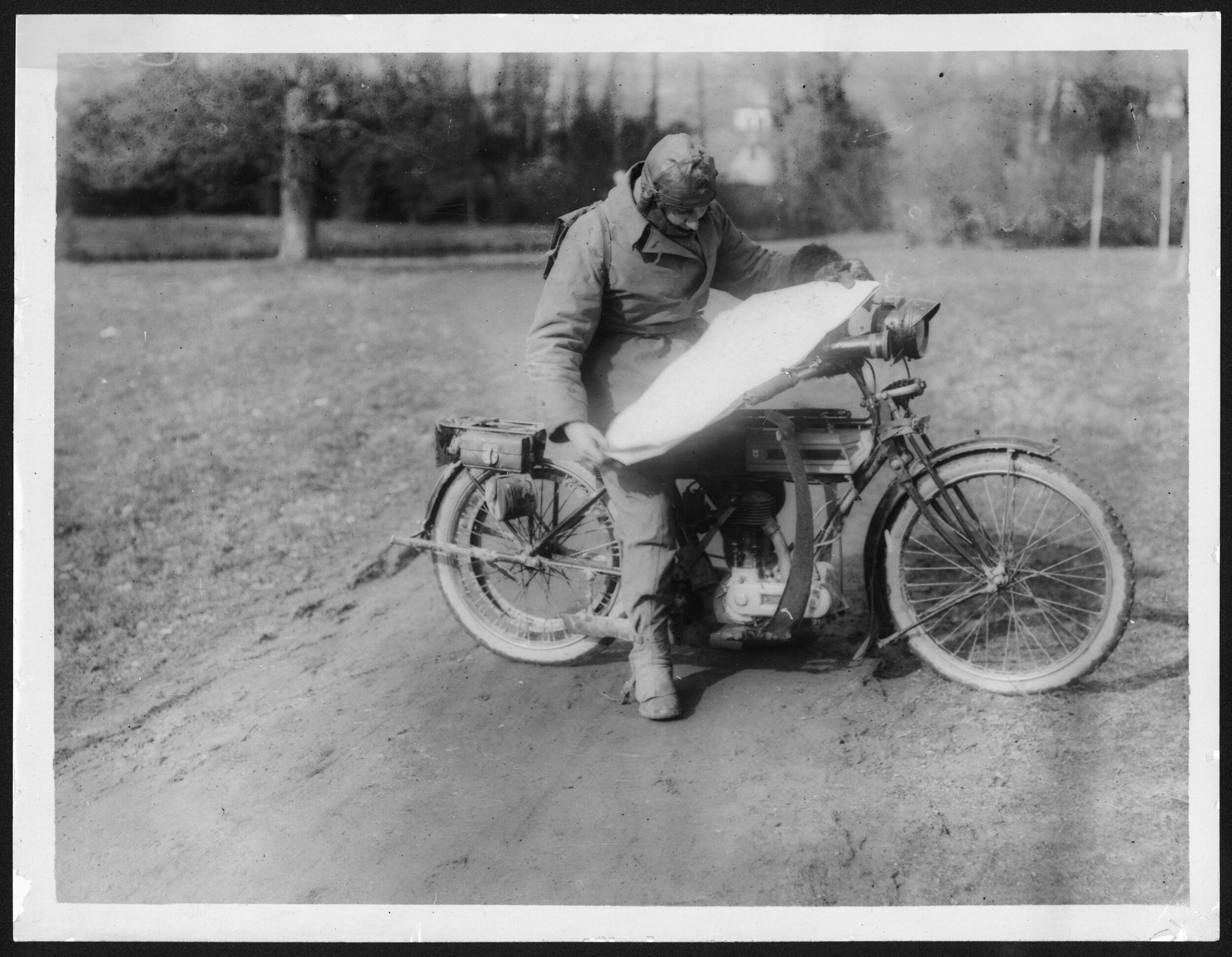 A British army dispatch rider sitting on his motorcycle, apparently looking at a map. The painting and logo on the frame below the cross bar suggest that this motorcycle is a Triumph. Triumph produced some 30,000 model H roadsters for the War Office. The machines were nicknamed the "Trusty Triumphs". Motorcycles had been becoming popular before the war. At that time Britain led the way, with some 200 manufacturers, many working on a small scale. Douglas, for example, which was producing ten bikes a week before the war, had a War Office order for 300 bikes each week. [Original reads: 'A British despatch rider.']